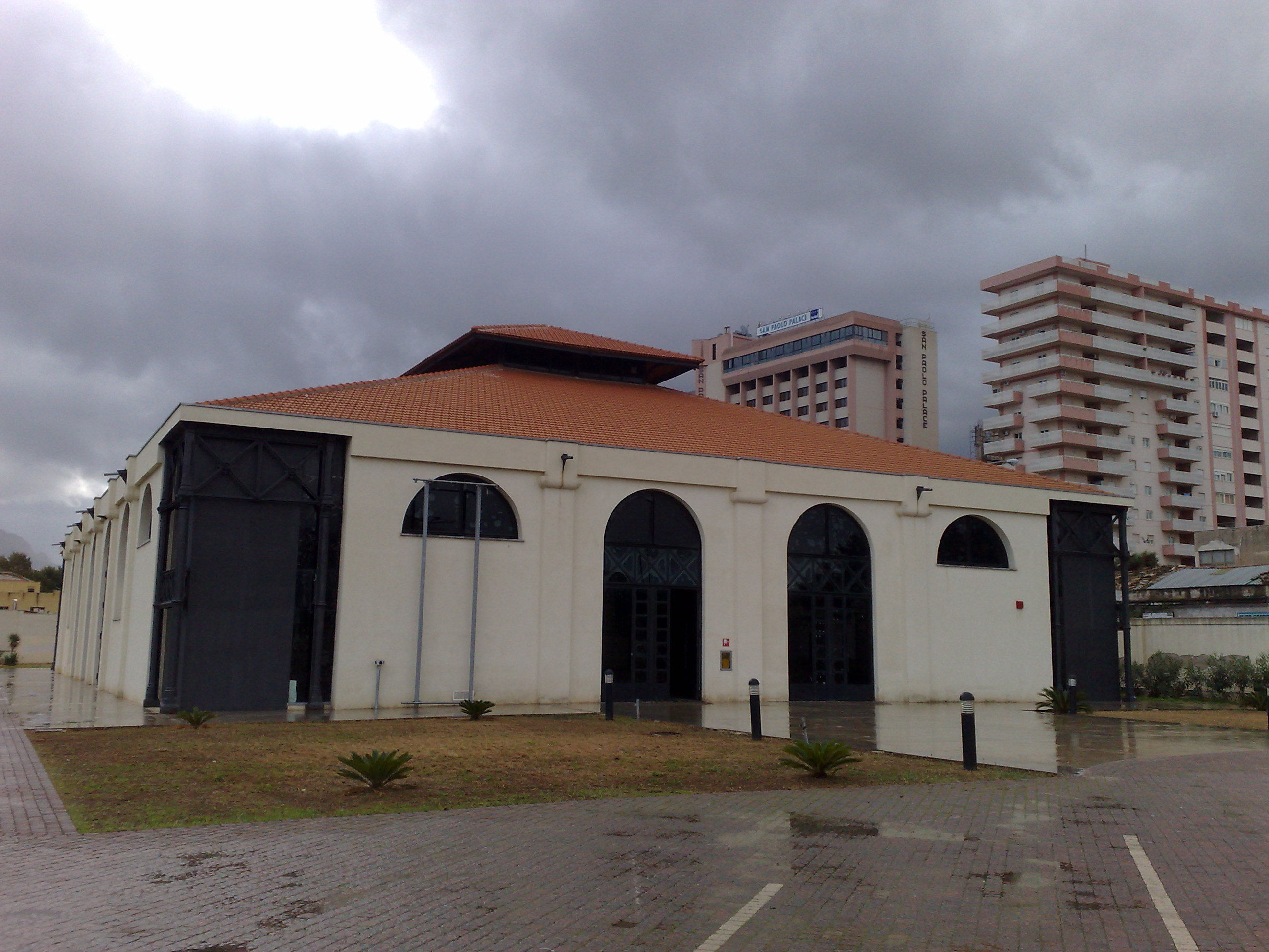 Old train depot in Sant'Erasmo(Palermo) Ex deposito dei treni di Sant'Erasmo,Palermo (ora sede di mostre)